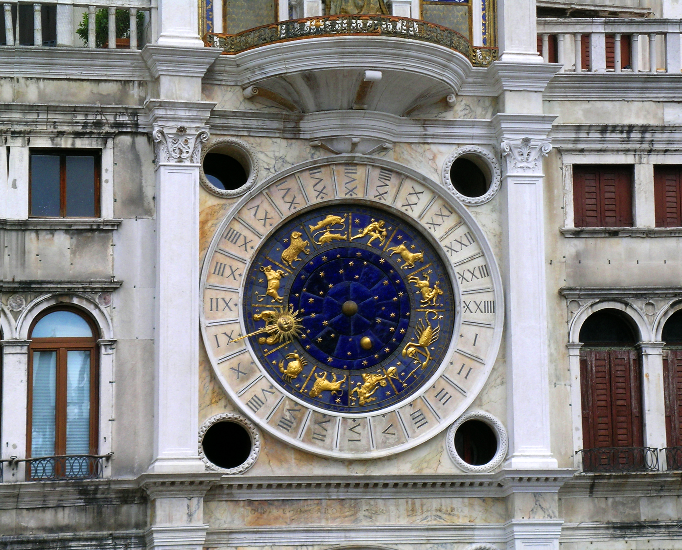 The clockface on the Torre dell'Orologio (clocktower) in the Piazza San Marco, Venice